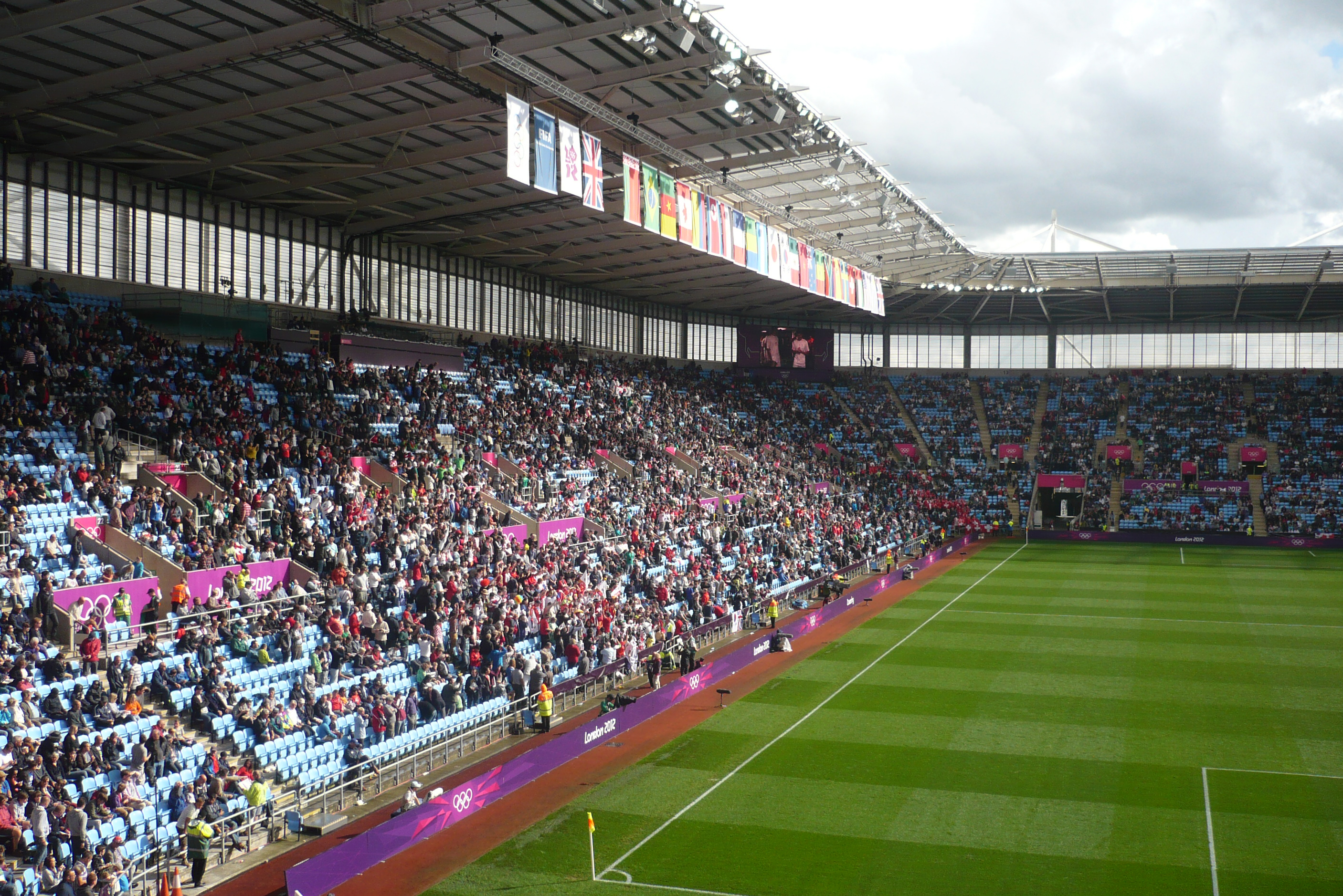 Inside Coventry's Ricoh Arena for the Olympic football competition, 2012